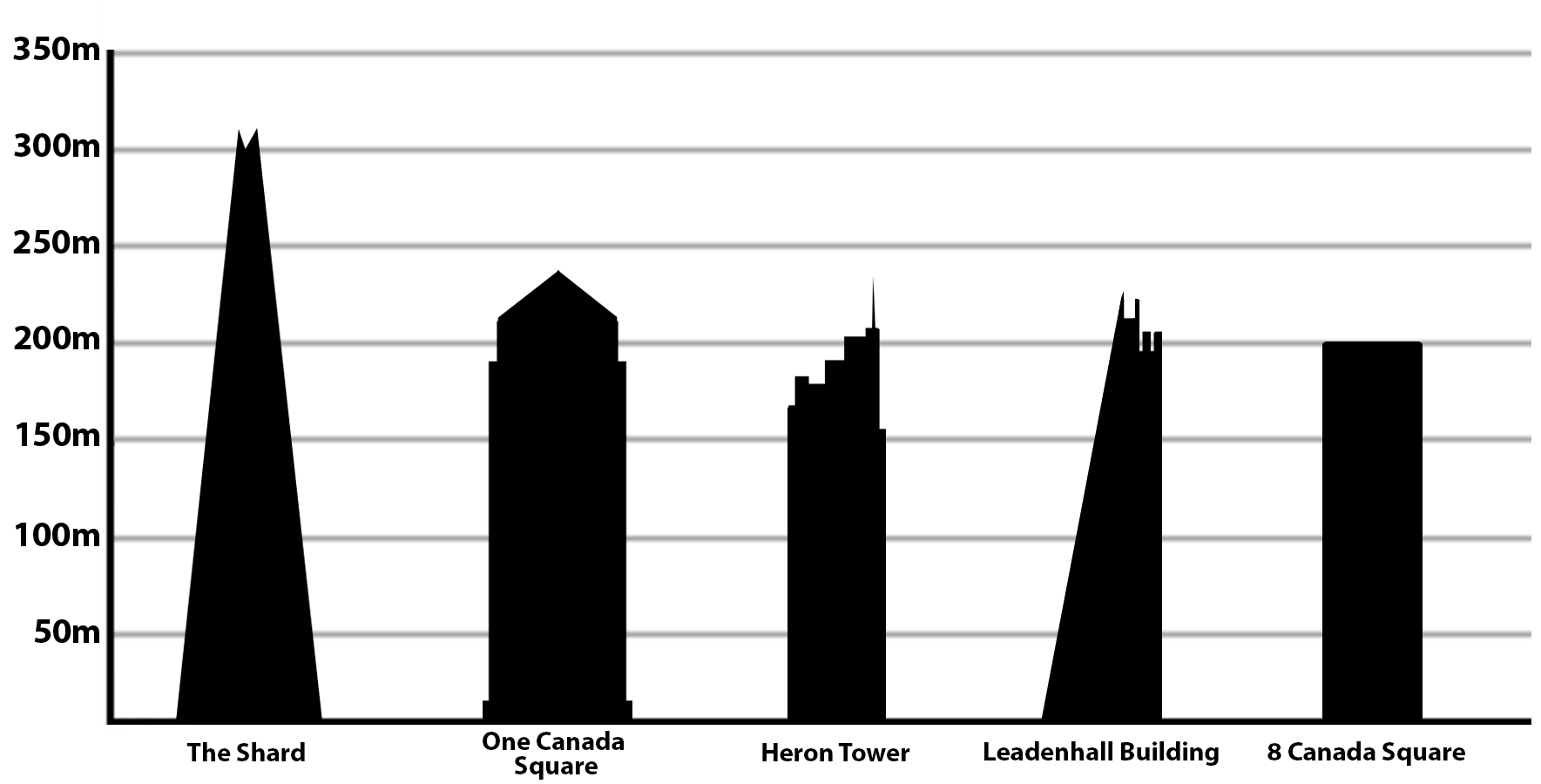 Tallest buildings in the United Kingdom; Used data from .